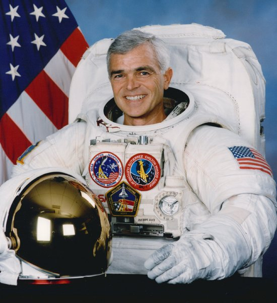 Portrait astronaut Michael Clifford